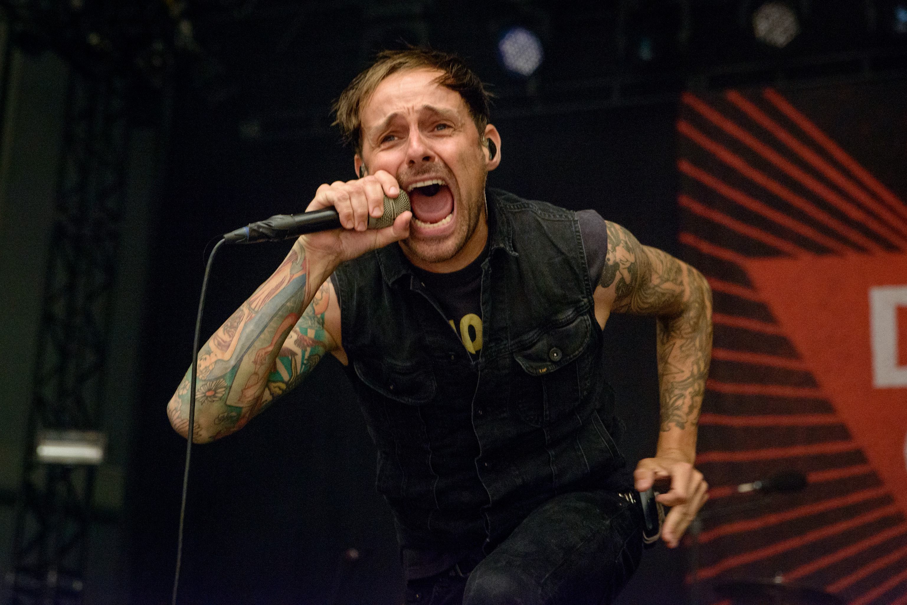 Donots Live @ Mash Festival Munich 2016